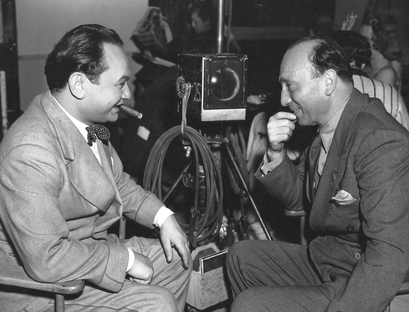 Candid photo of Edward G. Robinson and director Michael Curtiz discussing film Kid Galahad.